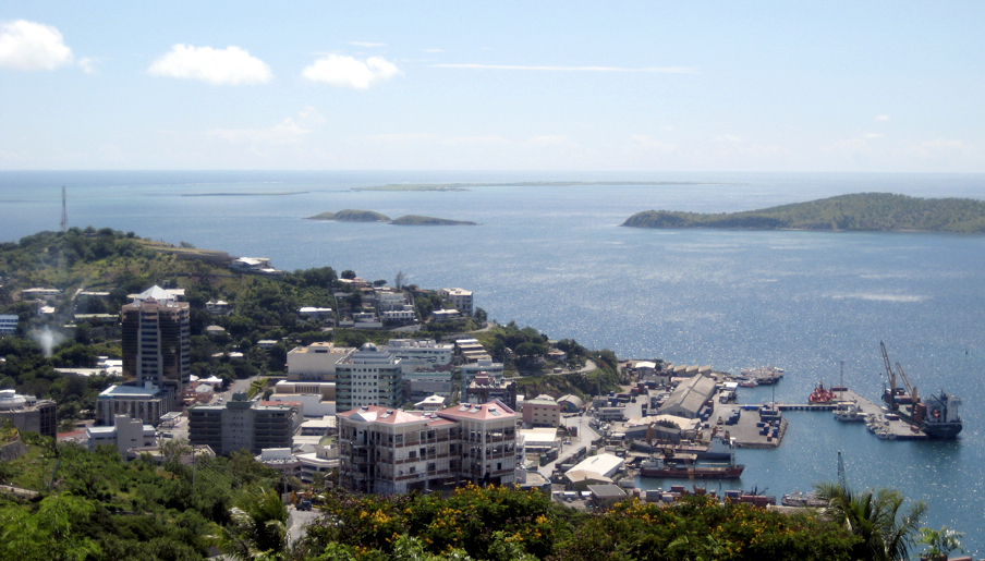 Overlooking Port Moresby "Town" from Touaguba Hill.